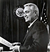 Charles E. Wiggins, US Representative from California